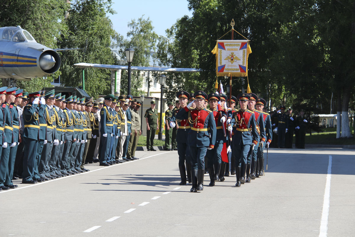 Solemn ceremony of the release in the Military Academy of Logistical Support in Volsk (branch).